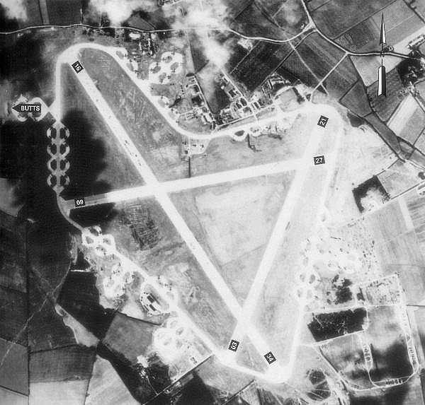 Aerial photograph of Boreham Airfield, England.